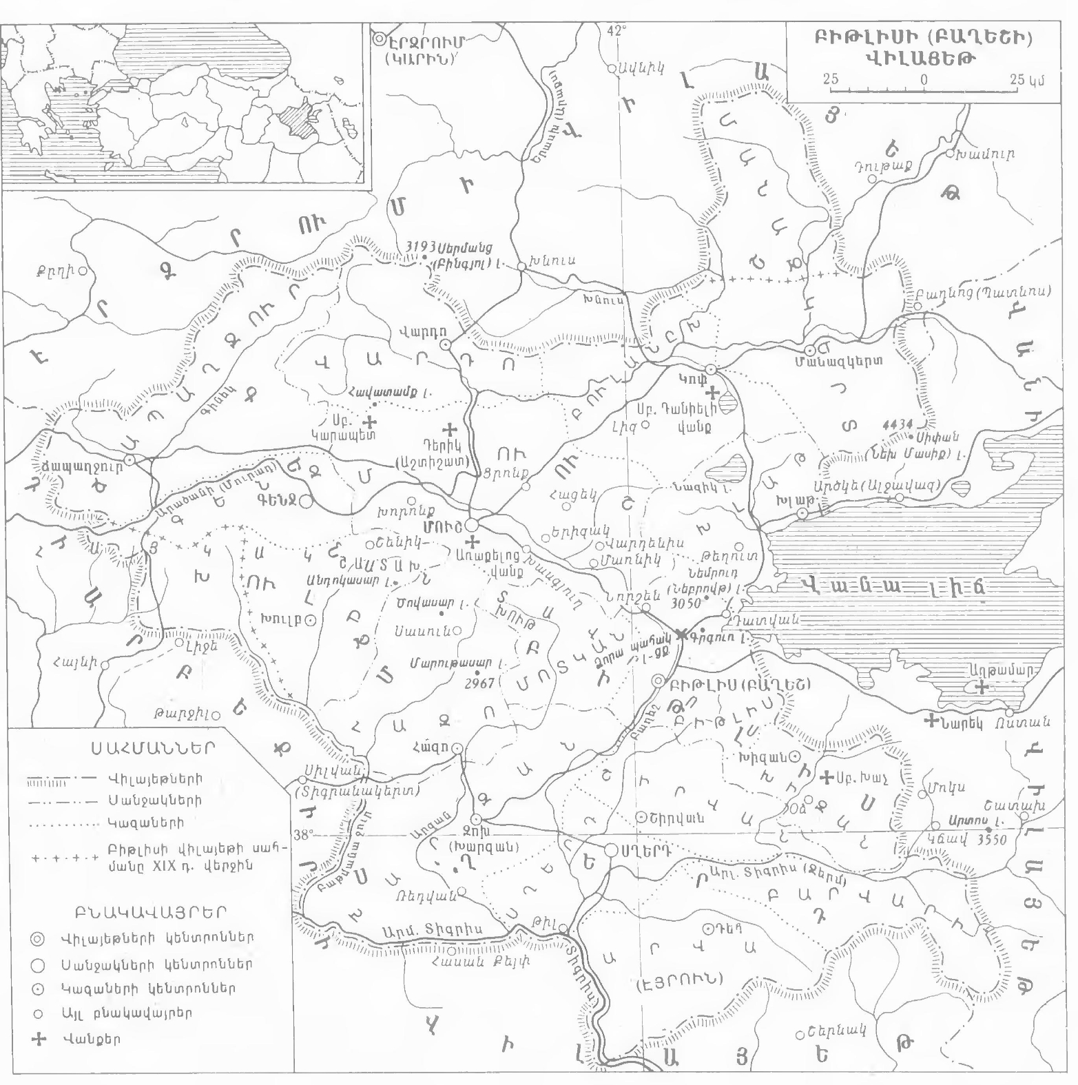 This file got from "Soviet Armenian Encyclopedia" with "Creative Commons BY-SA 3.0" License.